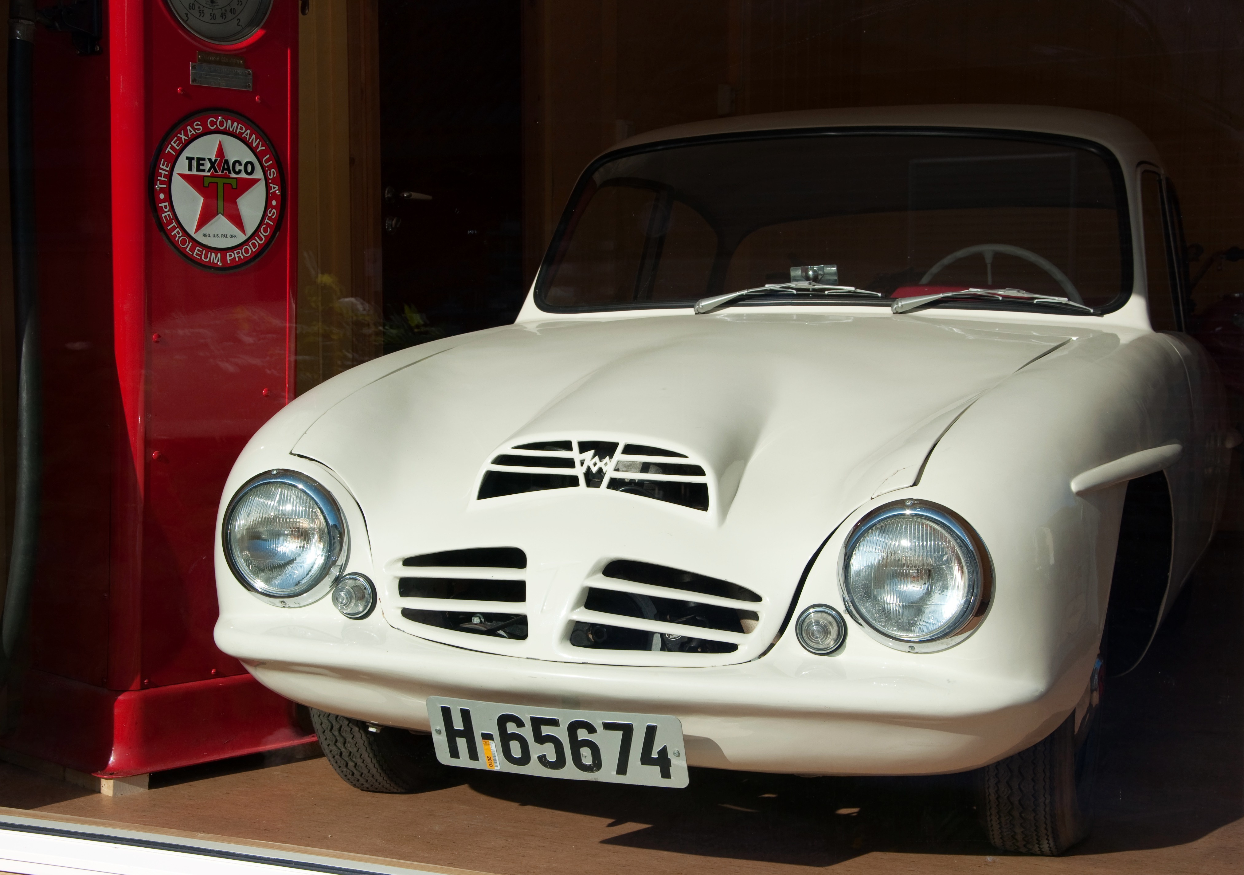 Troll car exhibited in Lunde, Telemark, Norway